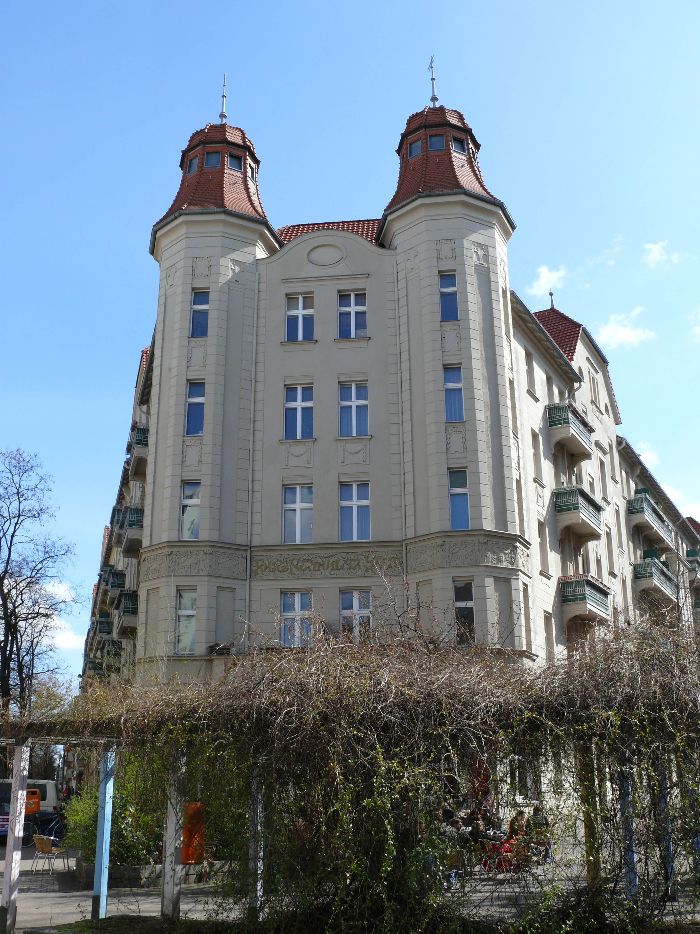 Berlin-Wedding Malplaquetstraße Karl-Schrader-Haus